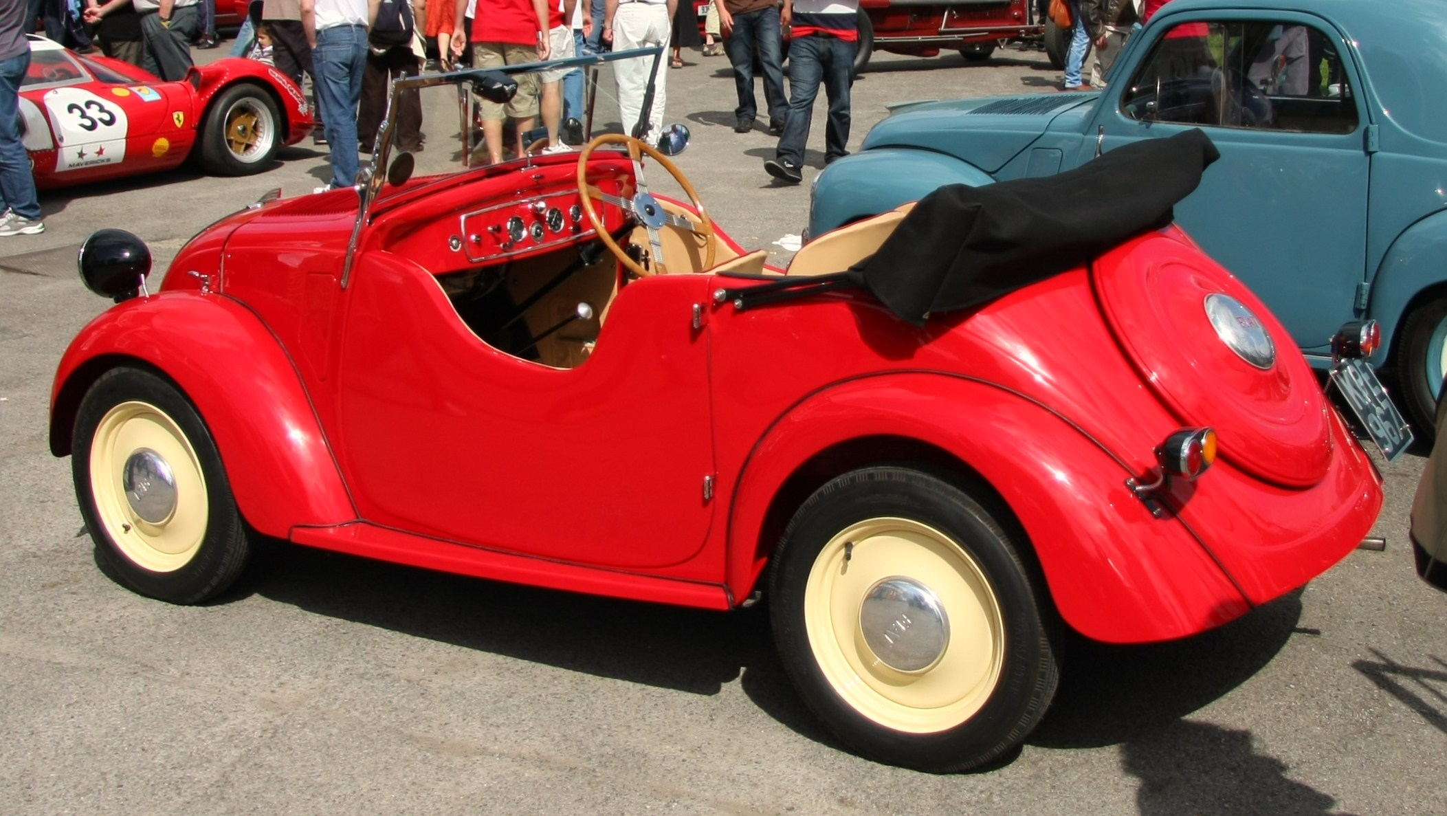 1938 Fiat 500 Topolino Siata Smith Special Convertible